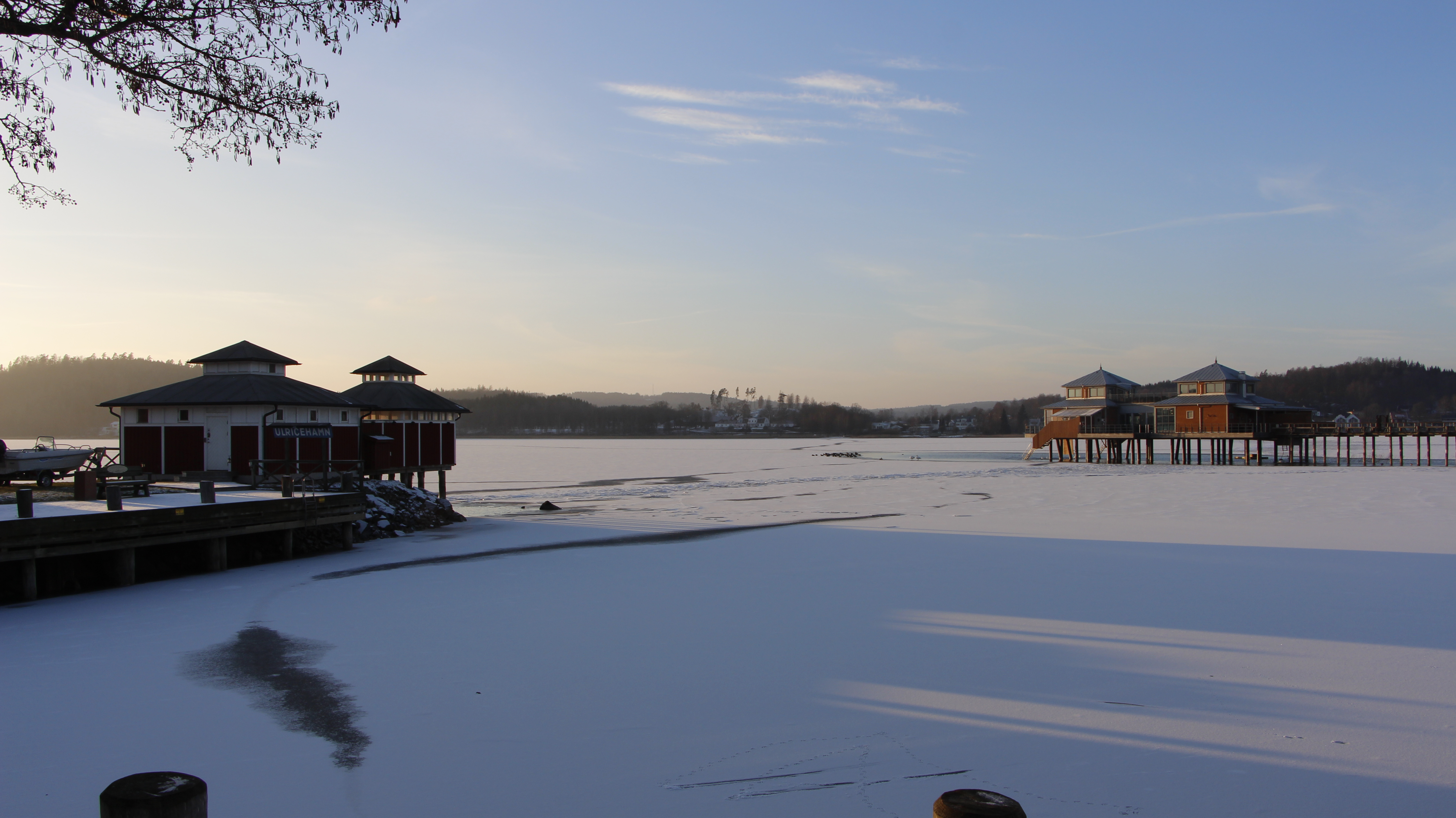 Kallbadhuset in Ulricehamn